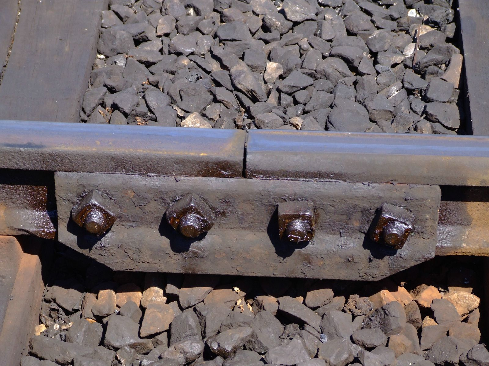 A portrait of a fishplate. On the Bluebell railway